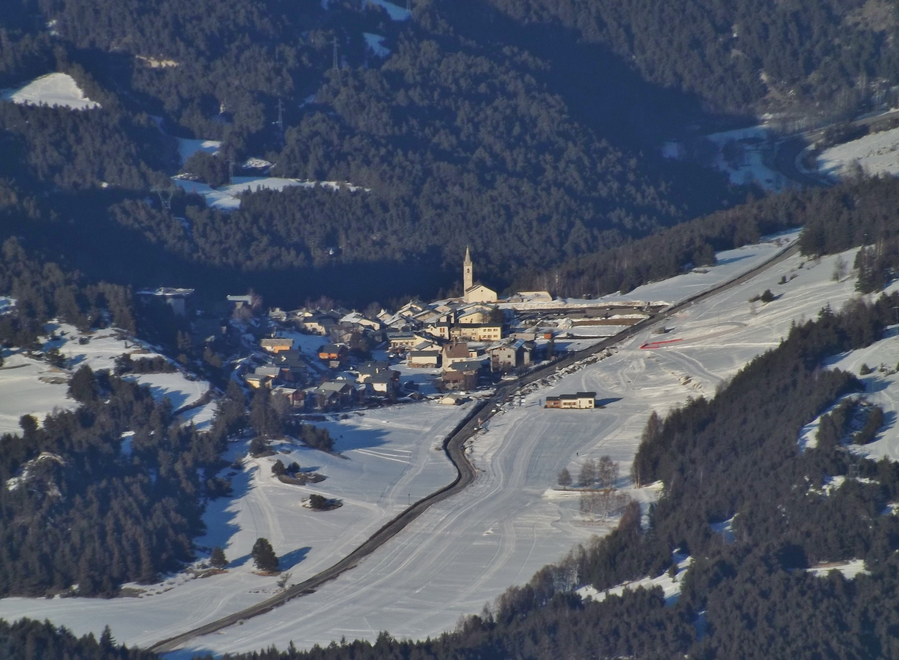 Panoramic sight, from the heights of La Norma ski resort, of Sardières village, in Savoie, France.